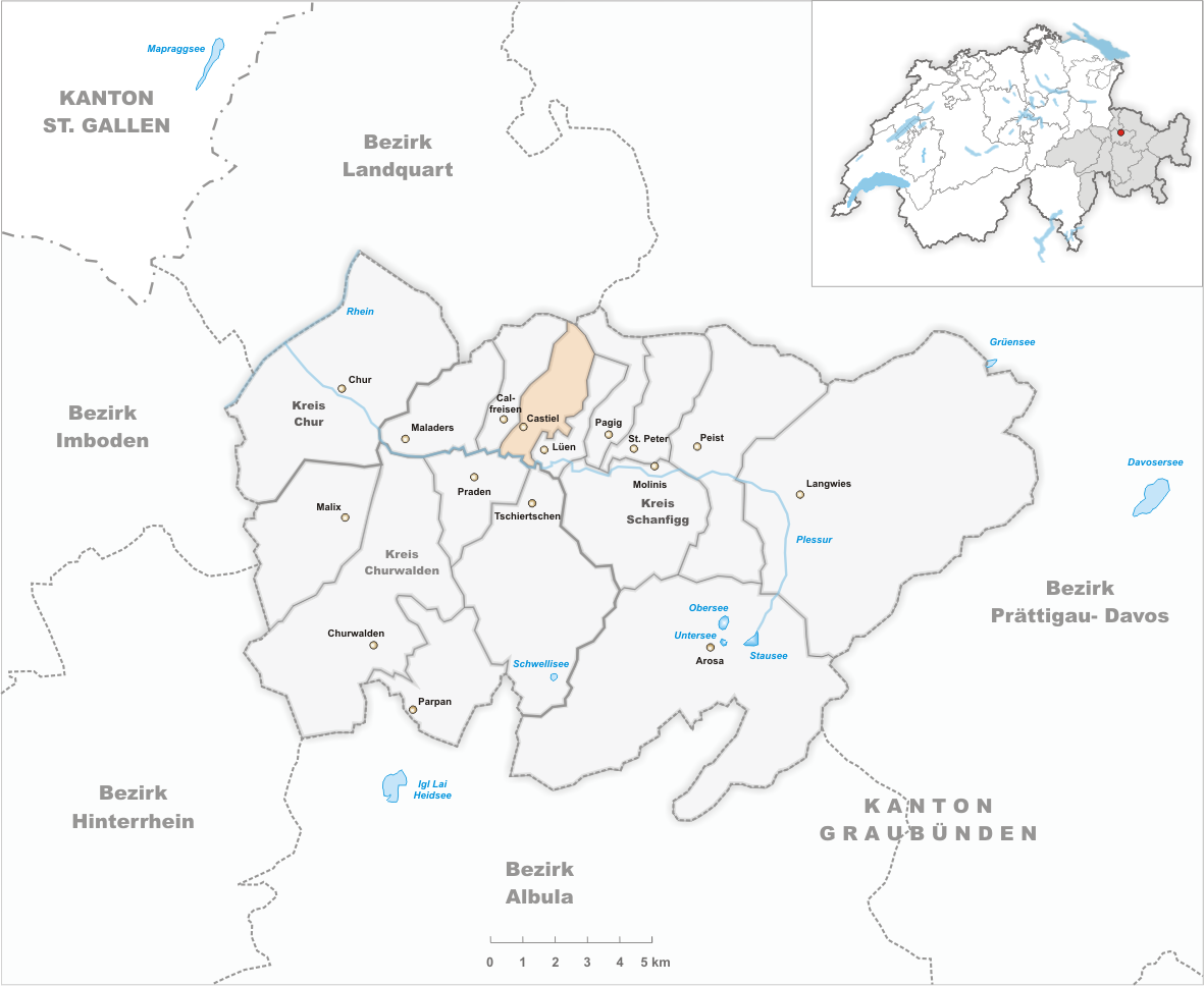 Municipality Castiel